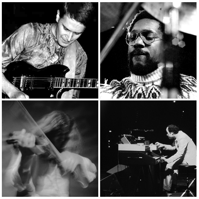 John McLaughlin (1973), Billy Cobham (1974), Jerry Goodman (1970), and Jan Hammer (1976) in the 1970s, minus Rick Laird – The first (almost) lineup of American jazz fusion band Mahavishnu Orchestra. Both photos were taken years apart, but still in the same time period. The composite photo depicts them in the 1970s period as if they were together.